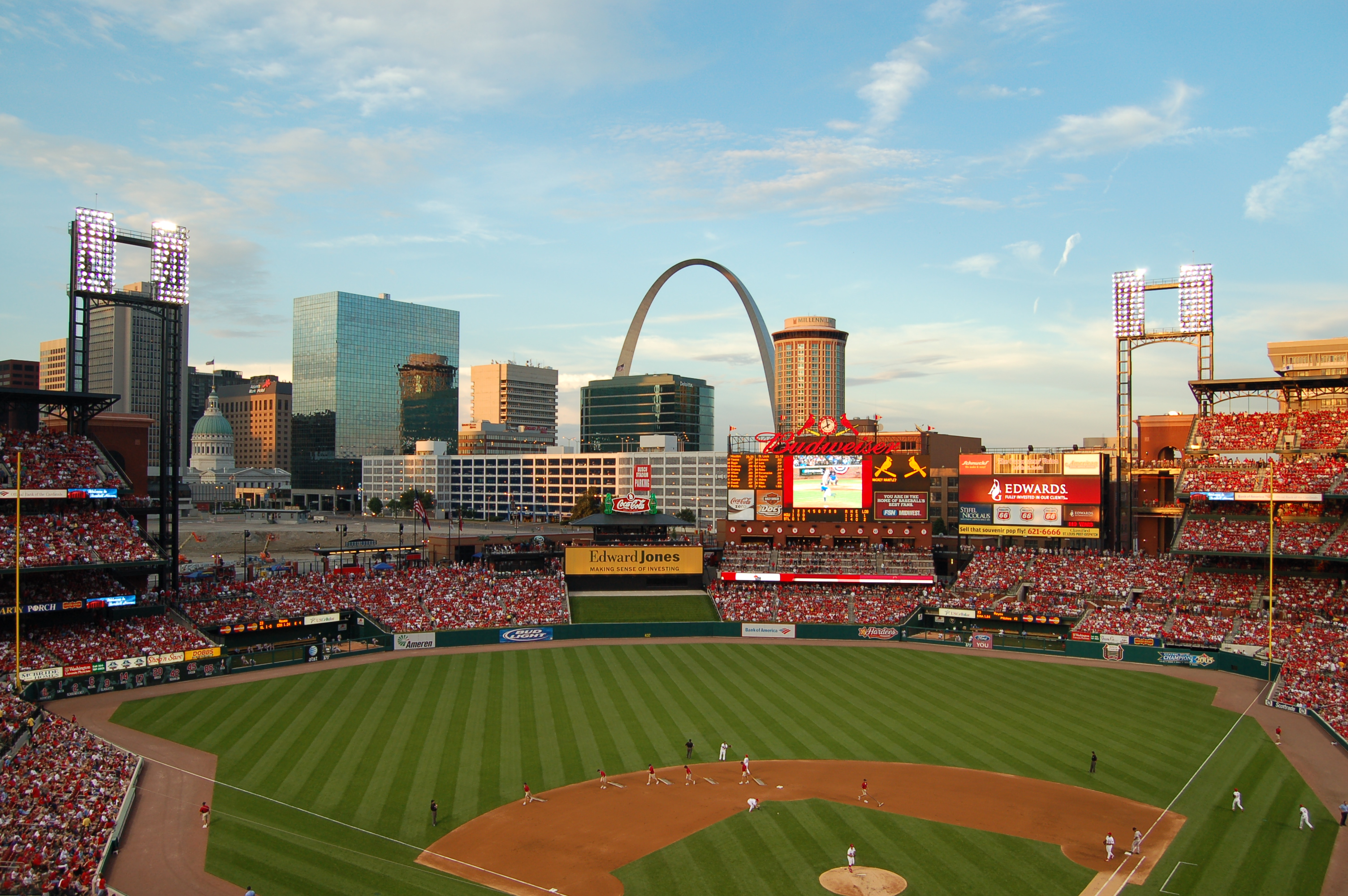 View of Busch Stadium, with Gateway Arch in backgroundBusch Stadium Inaugural Season